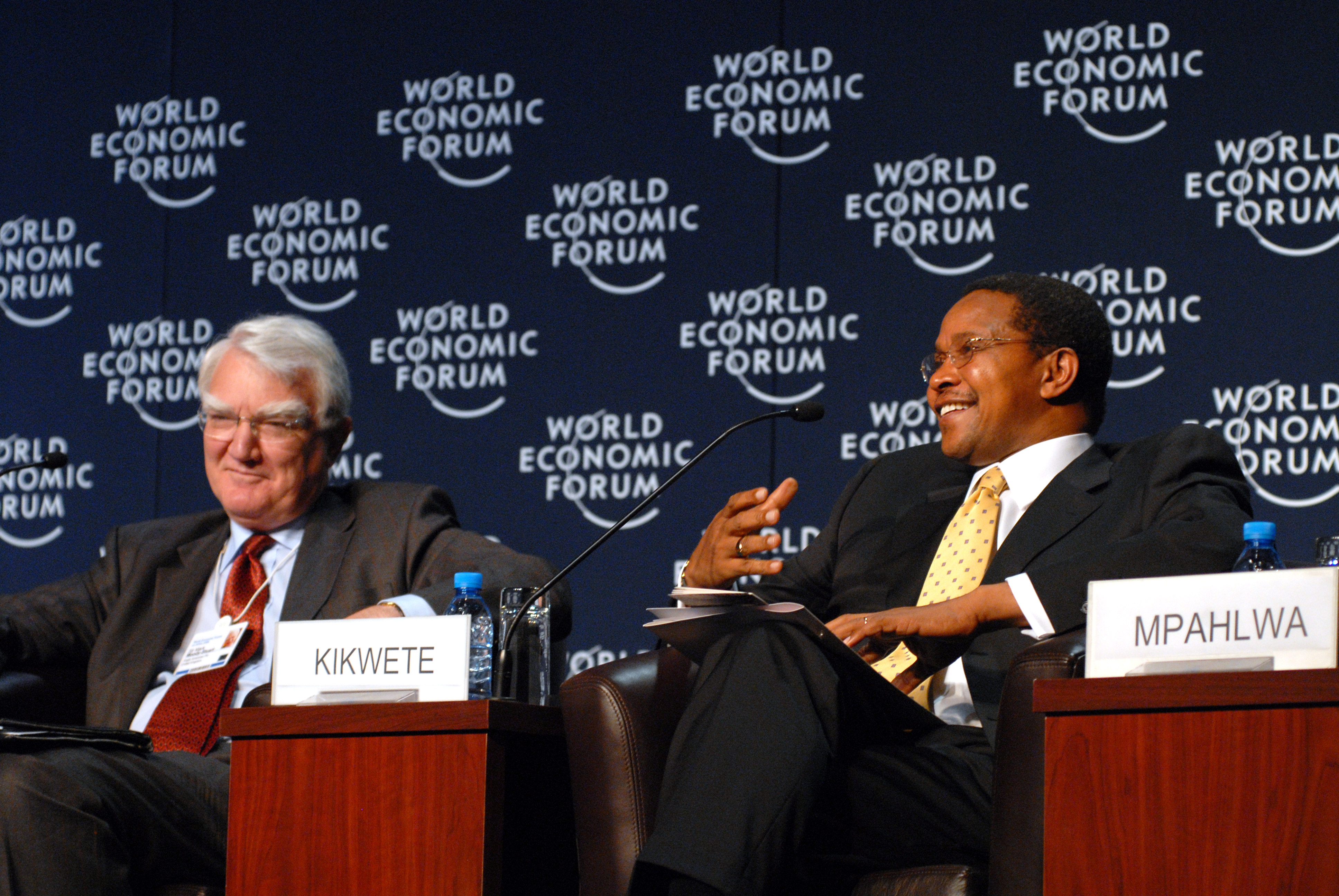 Mark Moody-Stuart and Jakaya M. Kikwete Copyright World Economic Forum ( Photo Eric Miller/